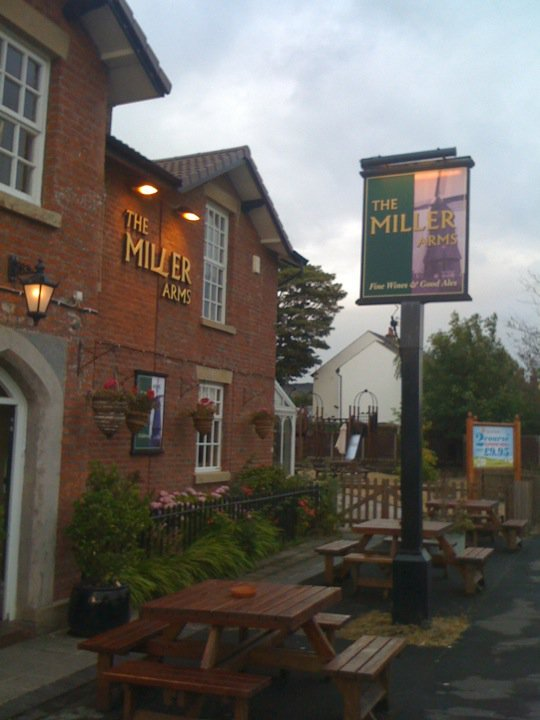 The Miller Arms, Singleton, Lancashire, England.